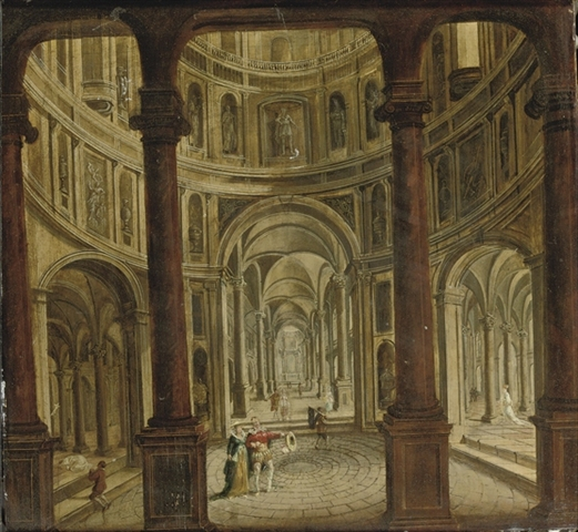 Painting of the Dutch/Flemish painter Hendrik van Steenwijk